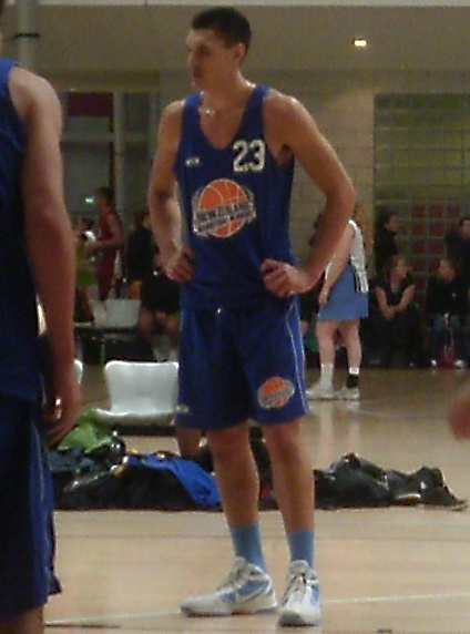 Steven Adams, basketball player, in intercity basketball game in Wellington, New Zealand.